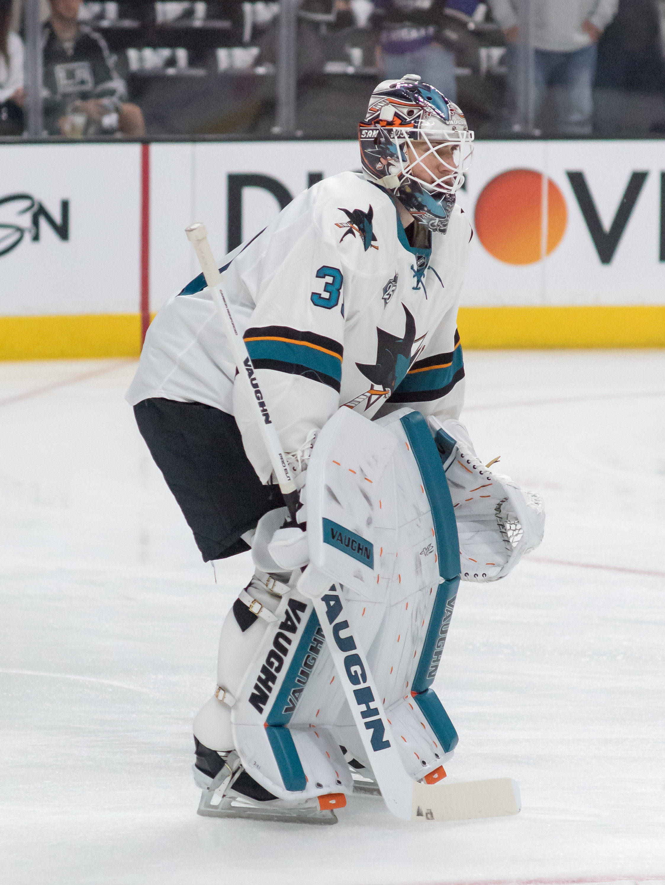 Martin Jones in 2016